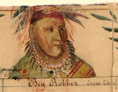 Drawing of Crow Indian chief Big Shadow (Big Robber). Detail of map